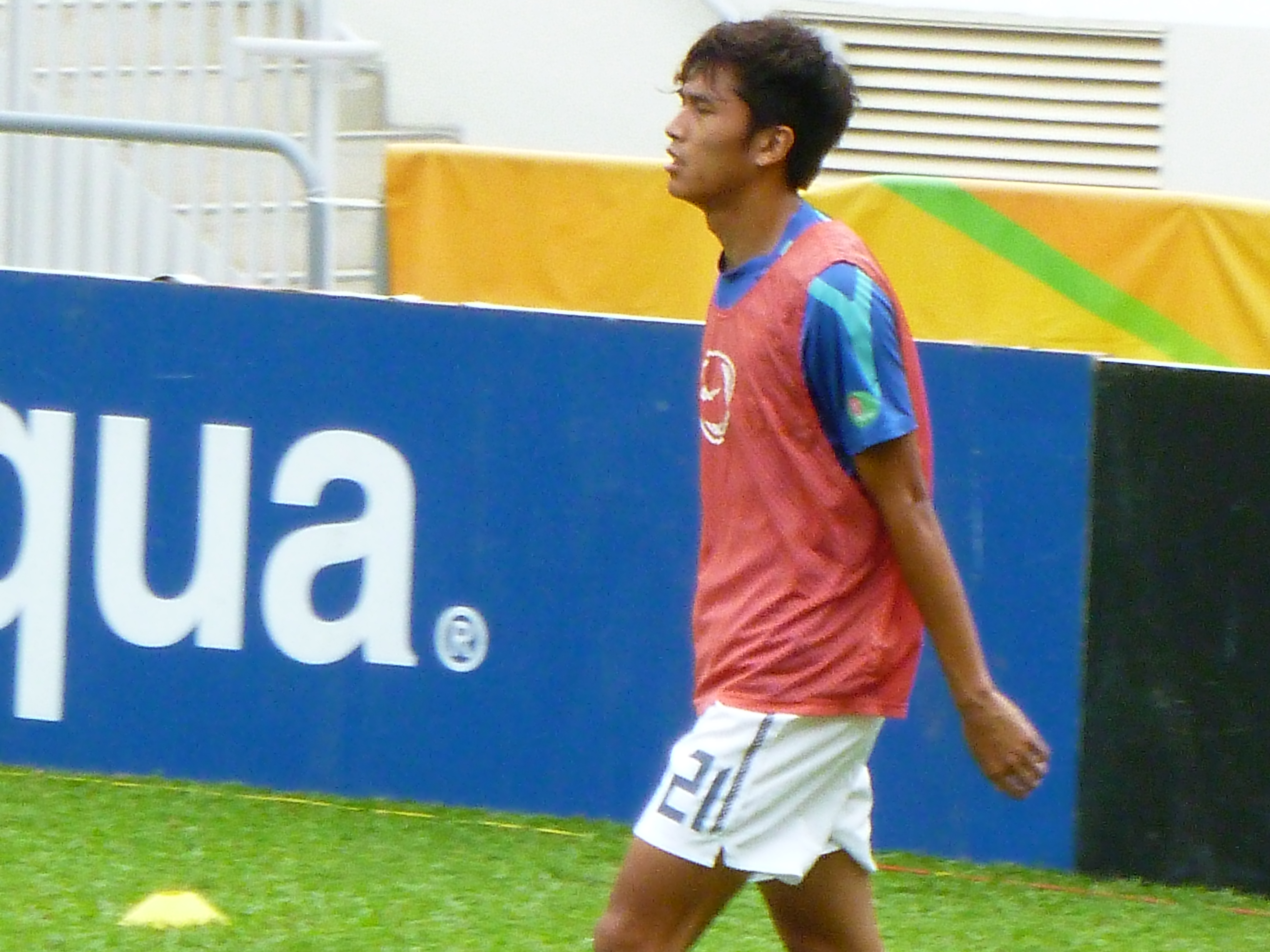 Tsang Kam To (13 May 2012 Hong Kong FA Cup, Kitchee vs Rangers, Mong Kok Stadium)